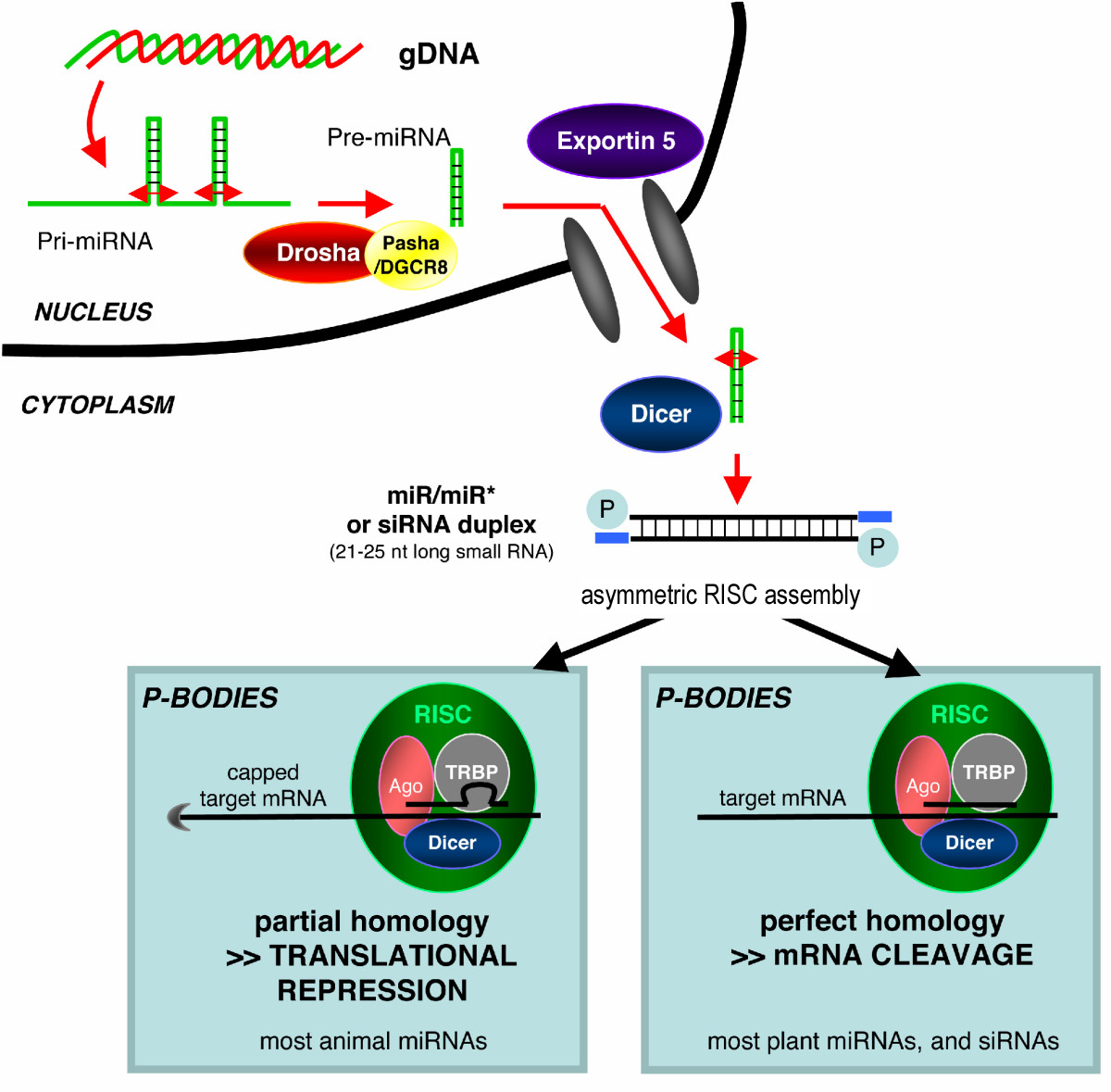 microRNA biogenesis and action.